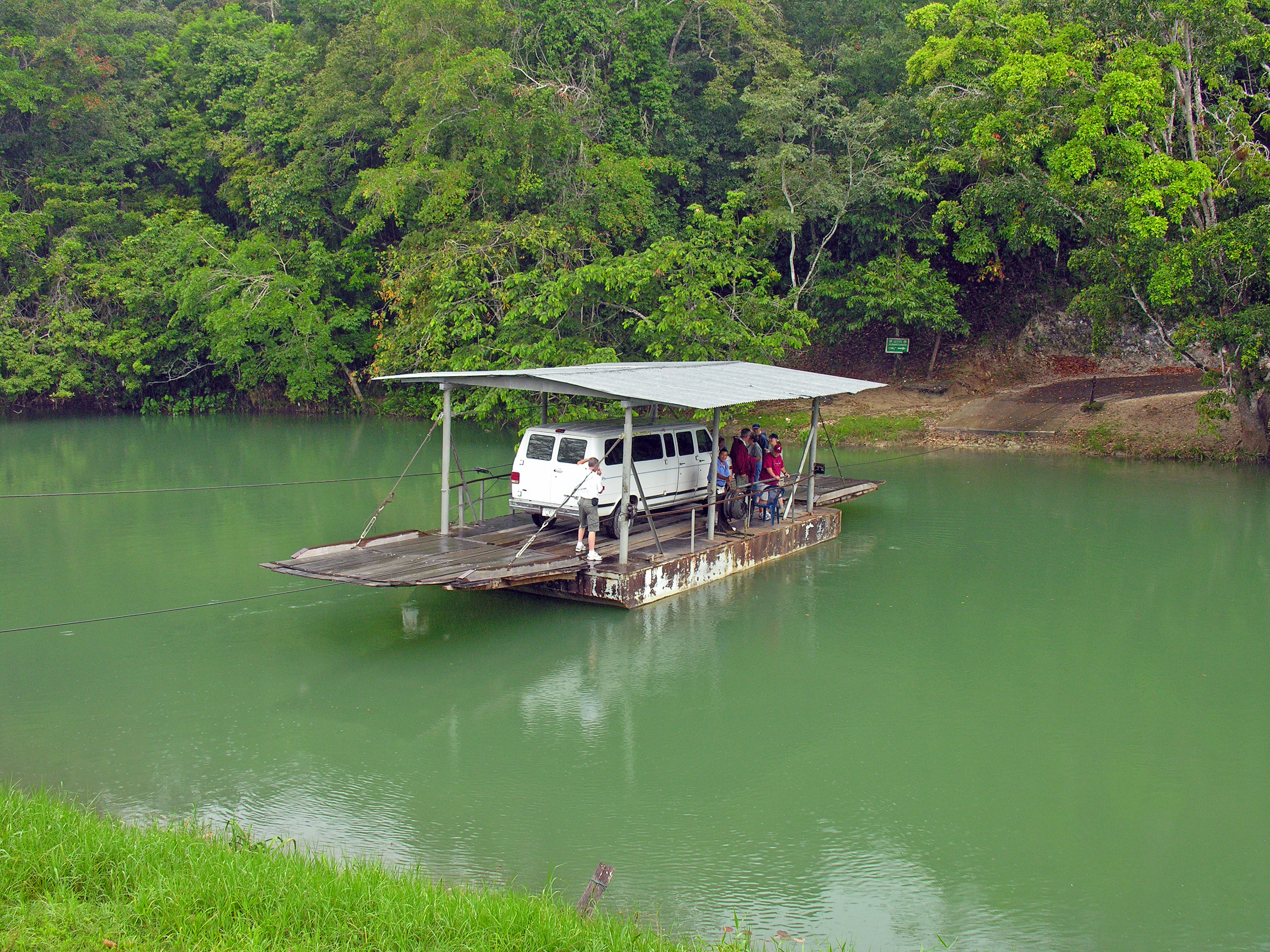 A small hand-cranked ferry is used for crossing the Mopan River to get to Xunantunich.